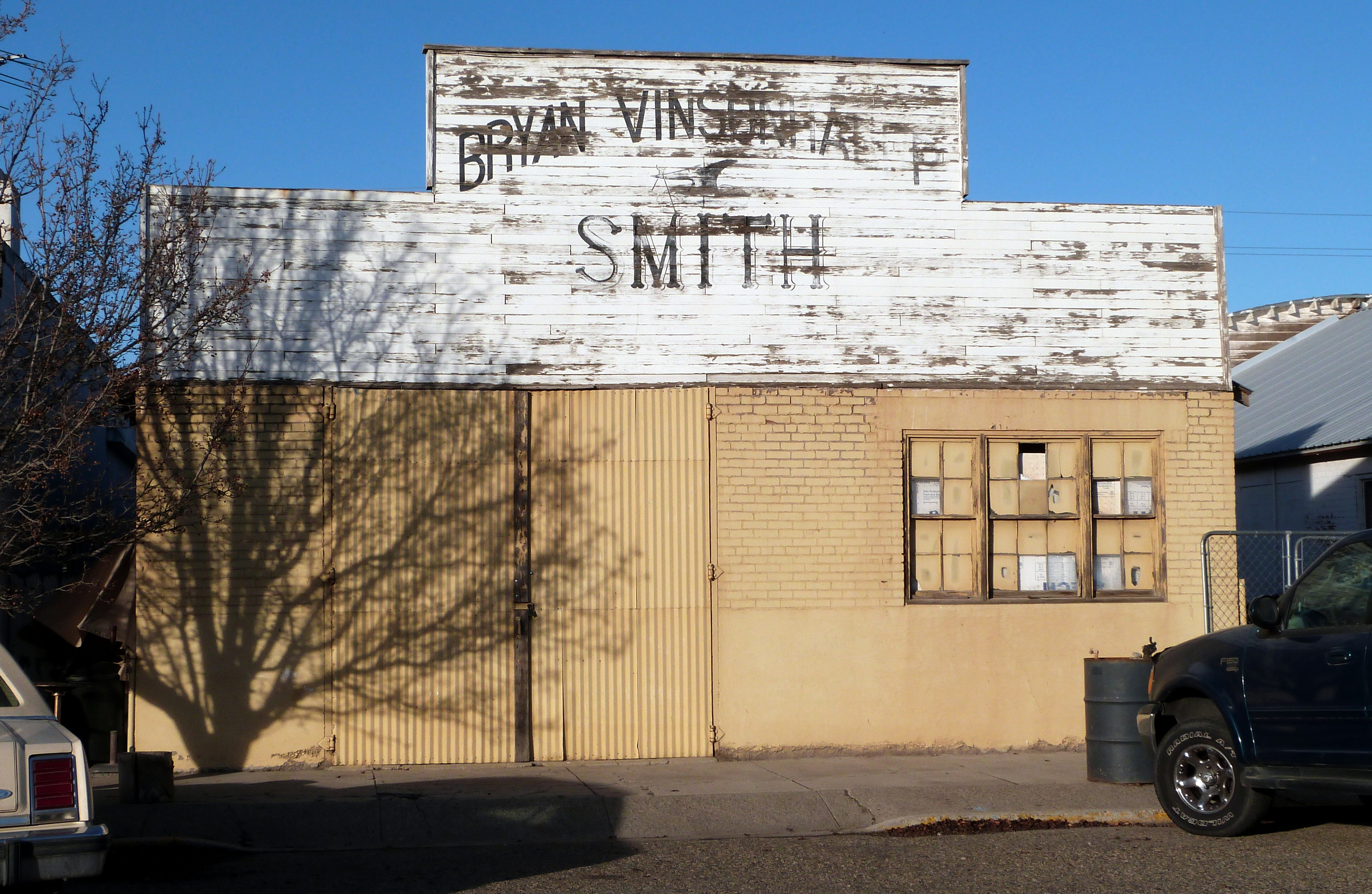 The historic Vinsonhaler Blacksmith Shop (built 1911), located at 122 Good Avenue in Nyssa, Oregon, United States, is listed on the US National Register of Historic Places.